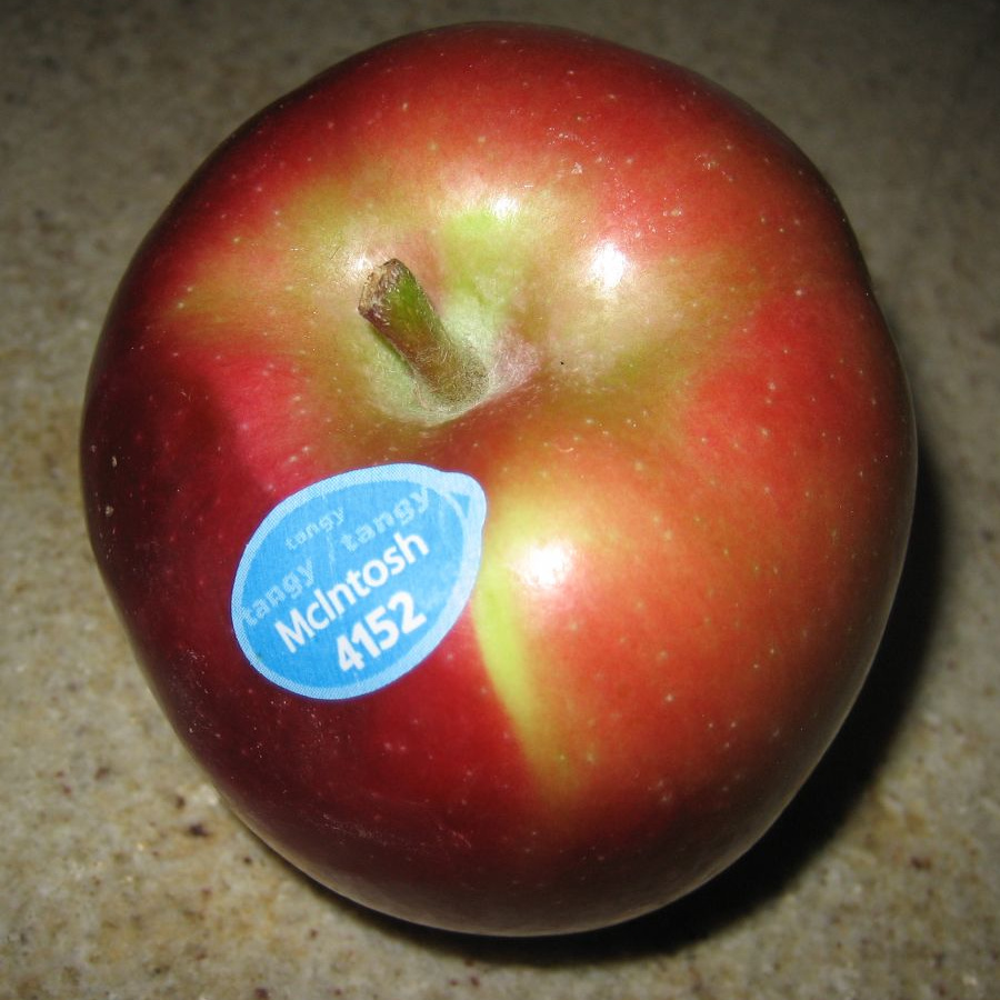 McIntosh apple with sticker. Cropped from the original Flickr image.